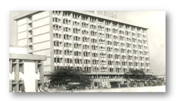 ZSI in 1986